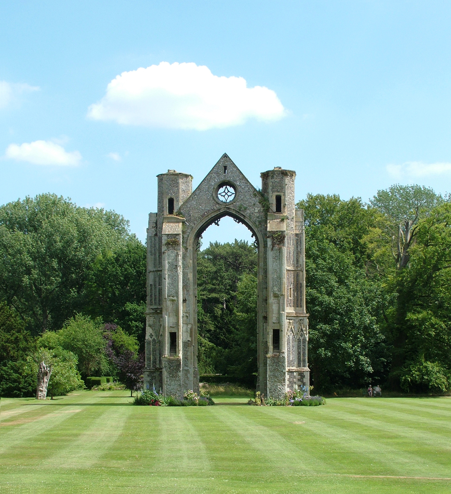 Walsingham Abbey Remains